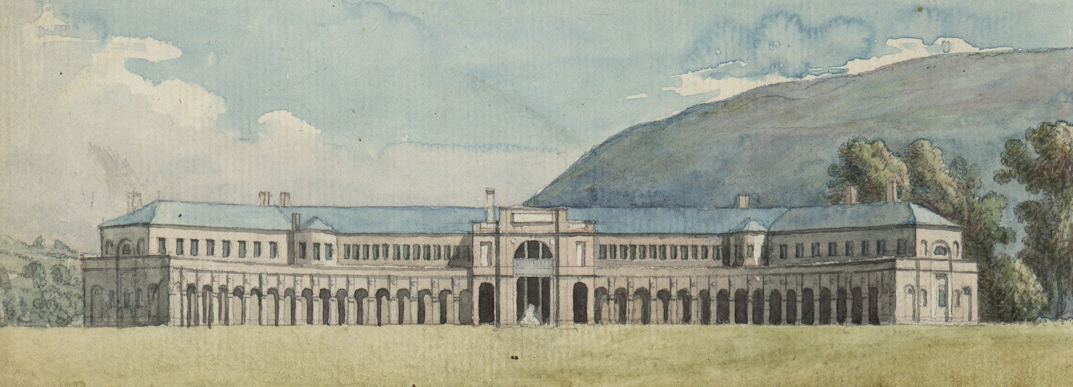 An image from a set of 8 extra-illustrated volumes of A tour in Wales by Thomas Pennant (1726-1798) that chronicle the three journeys he made through Wales between 1773 and 1776. These volumes are unique because they were compiled for Pennant's own library at Downing. This edition was produced in 1781. The volumes include a number of original drawings by Moses Griffiths, Ingleby and other well known artists of the period. Thomas Pennant (1726-1798)